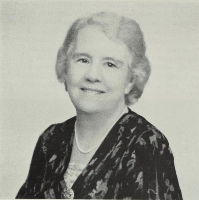 Ethel May Eliza Zahel (3 February 1877 – 9 April 1951) was an Australian public servant, schoolteacher and administrator of Badu Island